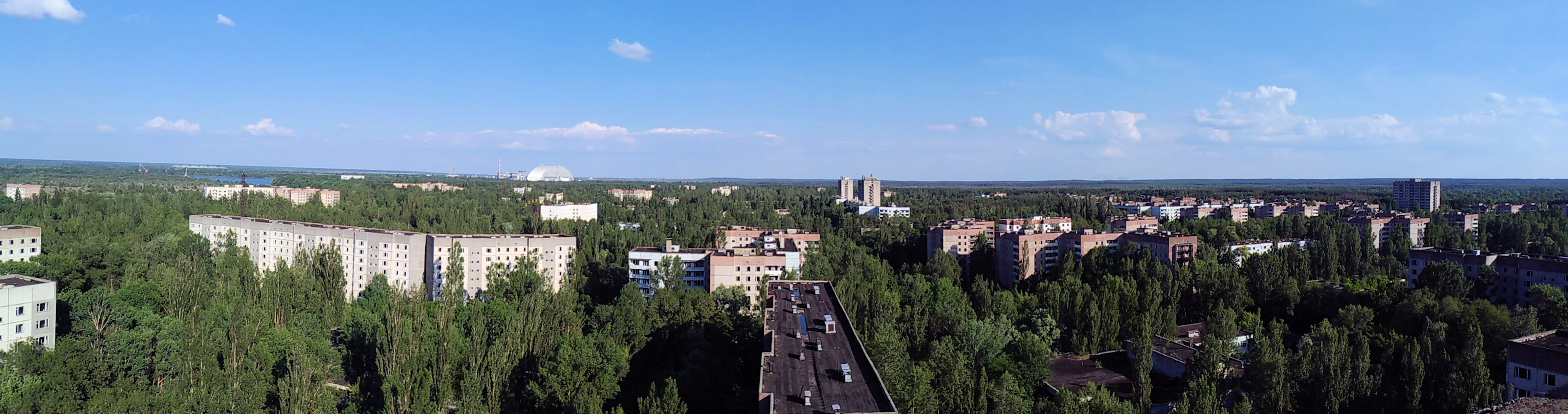 Pripyat in June 2019: view from a 16-story apartment block